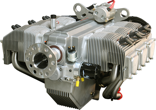 3300 6 Cylinder Engine